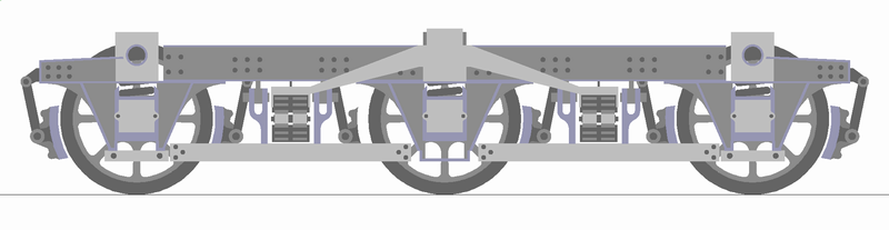 Bogie TR73 side view.